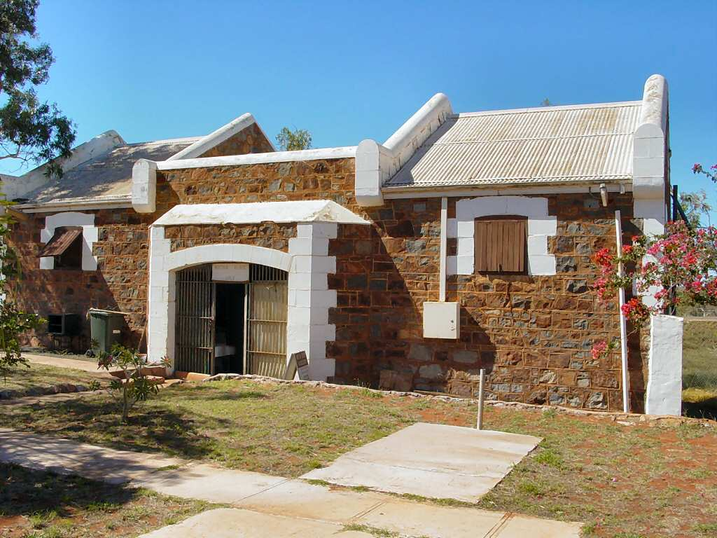 Photo of Roeburn Tourist Centre.